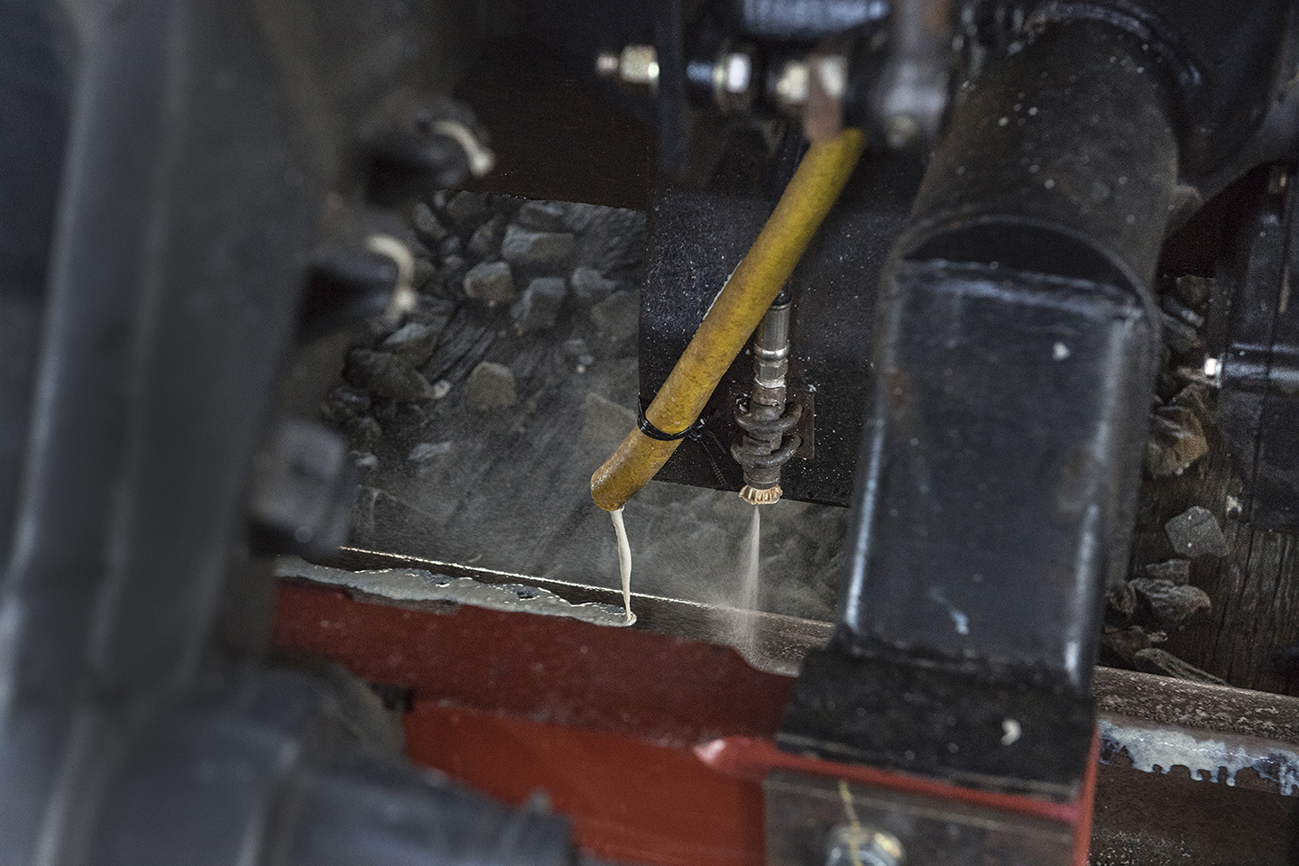 To fight autumn train delays, the Long Island Rail Road operates work train that sprays water jets to clear tracks of slimy leaf debris during the fall season. The specialized train then applies a traction gel onto the freshly cleared rails that allows train wheels to maintain traction, even in the presence of crushed leaf slime. This photo shows the application of the traction gel. Photo: Metropolitan Transportation Authority / Patrick Cashin